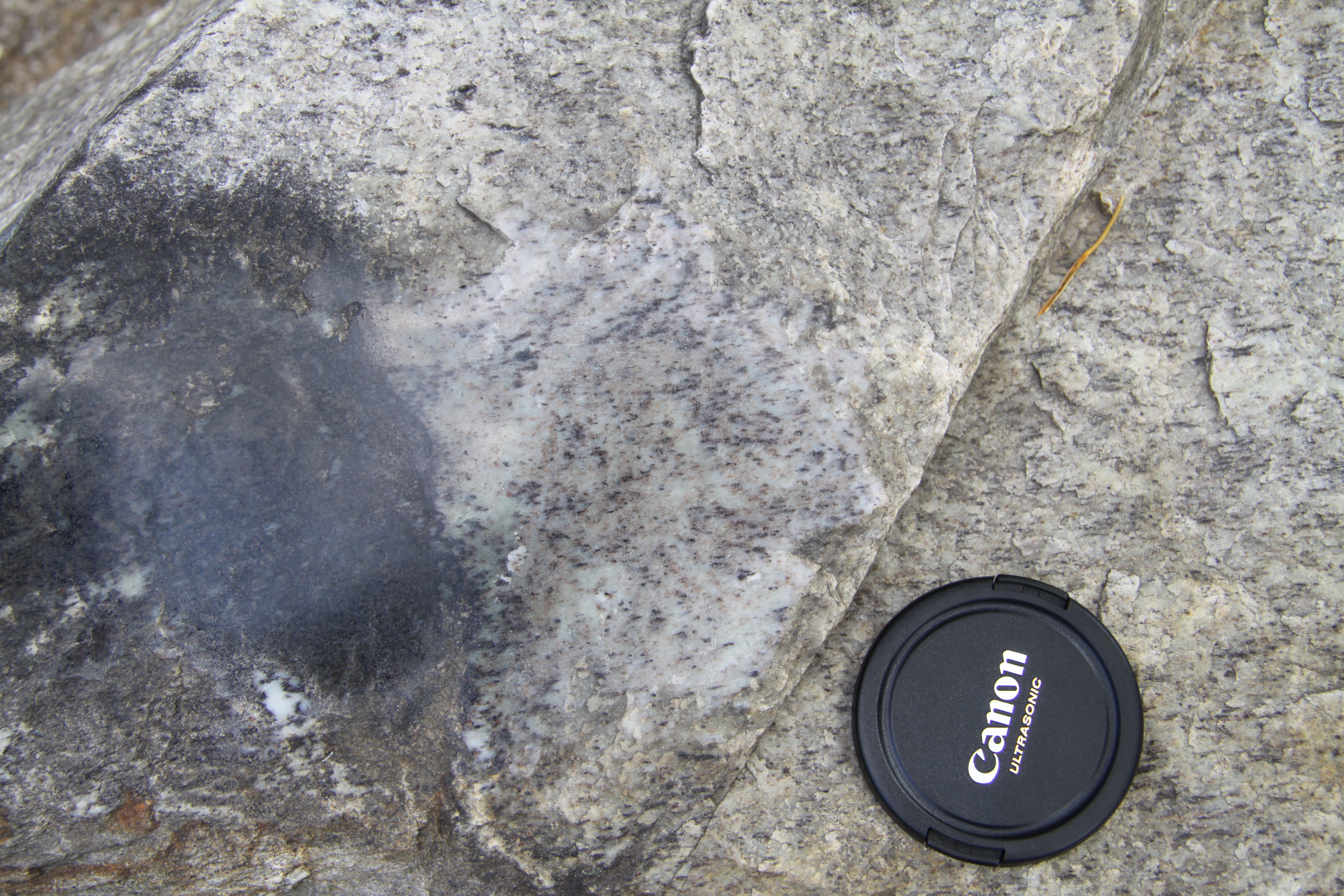 Granulite in Geopark in botanic garden on Albertov, Prague, Czech Republic. - Google Maps - Google Earth